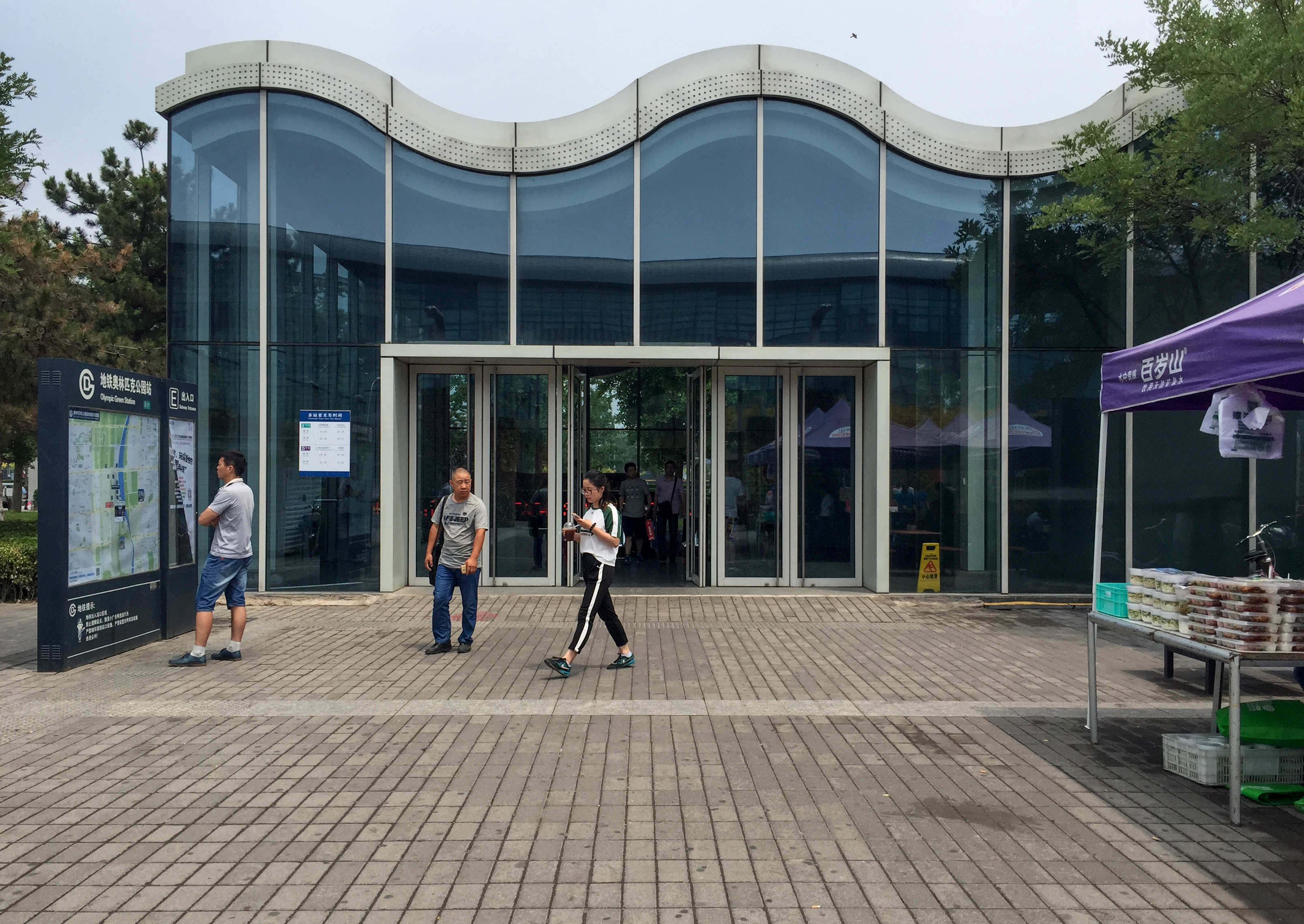 Taken on 13:13:13... This exit provides closest access to China National Convention Center, but the actual exit is not that easy because of fences!